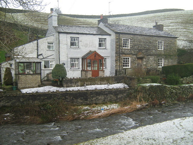 Bantyghyll Cottage Looking across Chapel Beck.